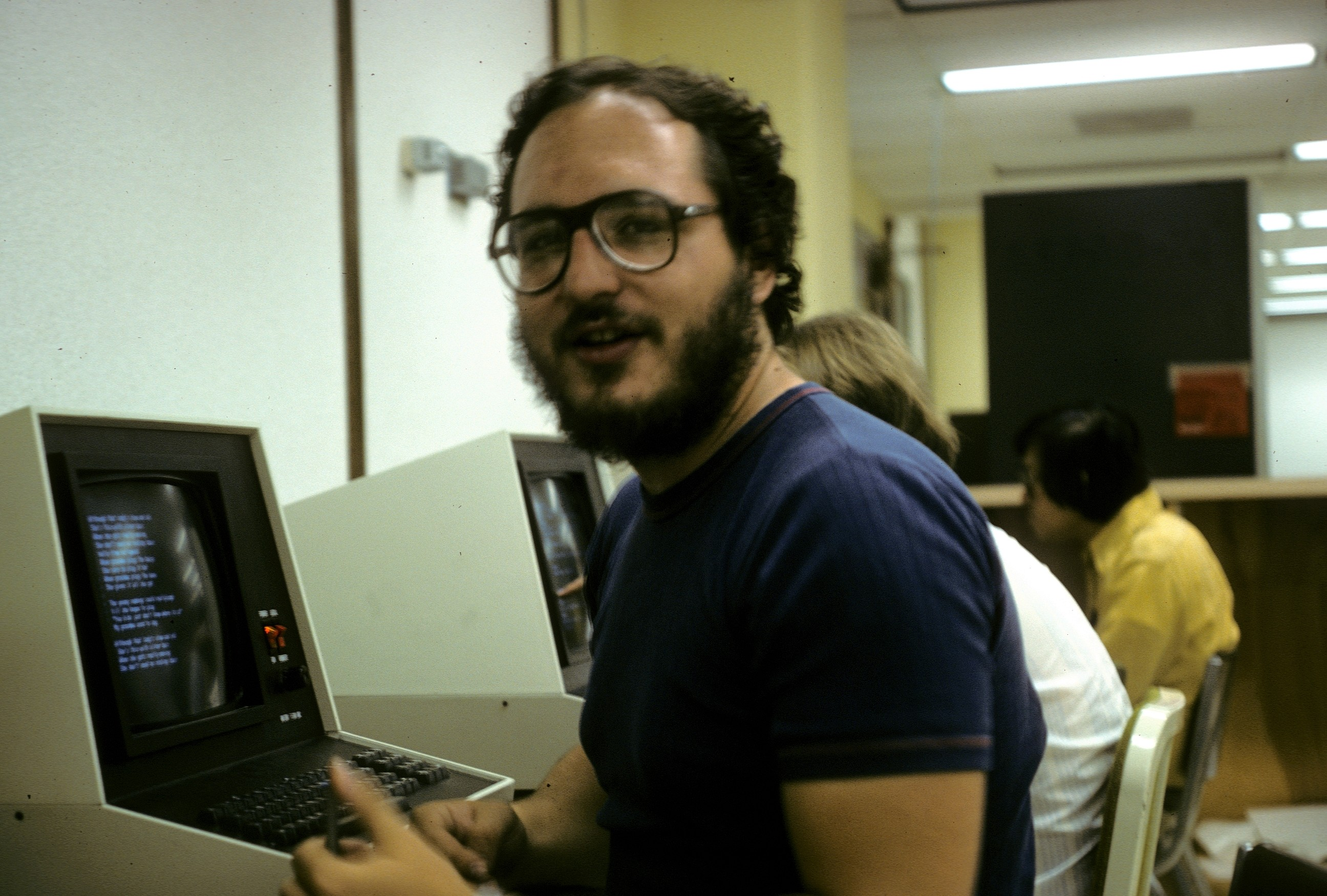 Computer user around 1978 at the University of Wisconsin, Madison, working at a Unix terminal.